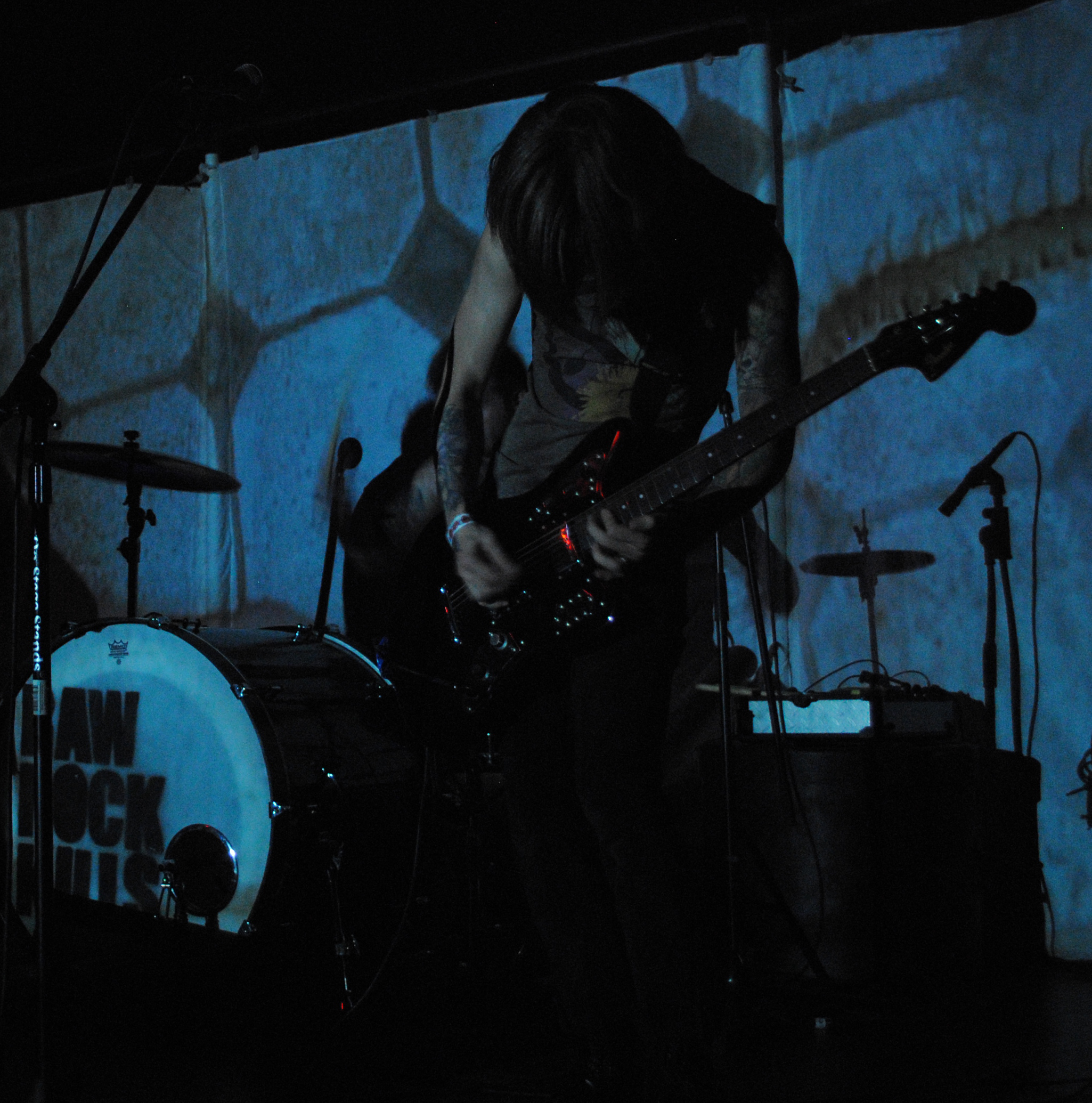 Josh Dies